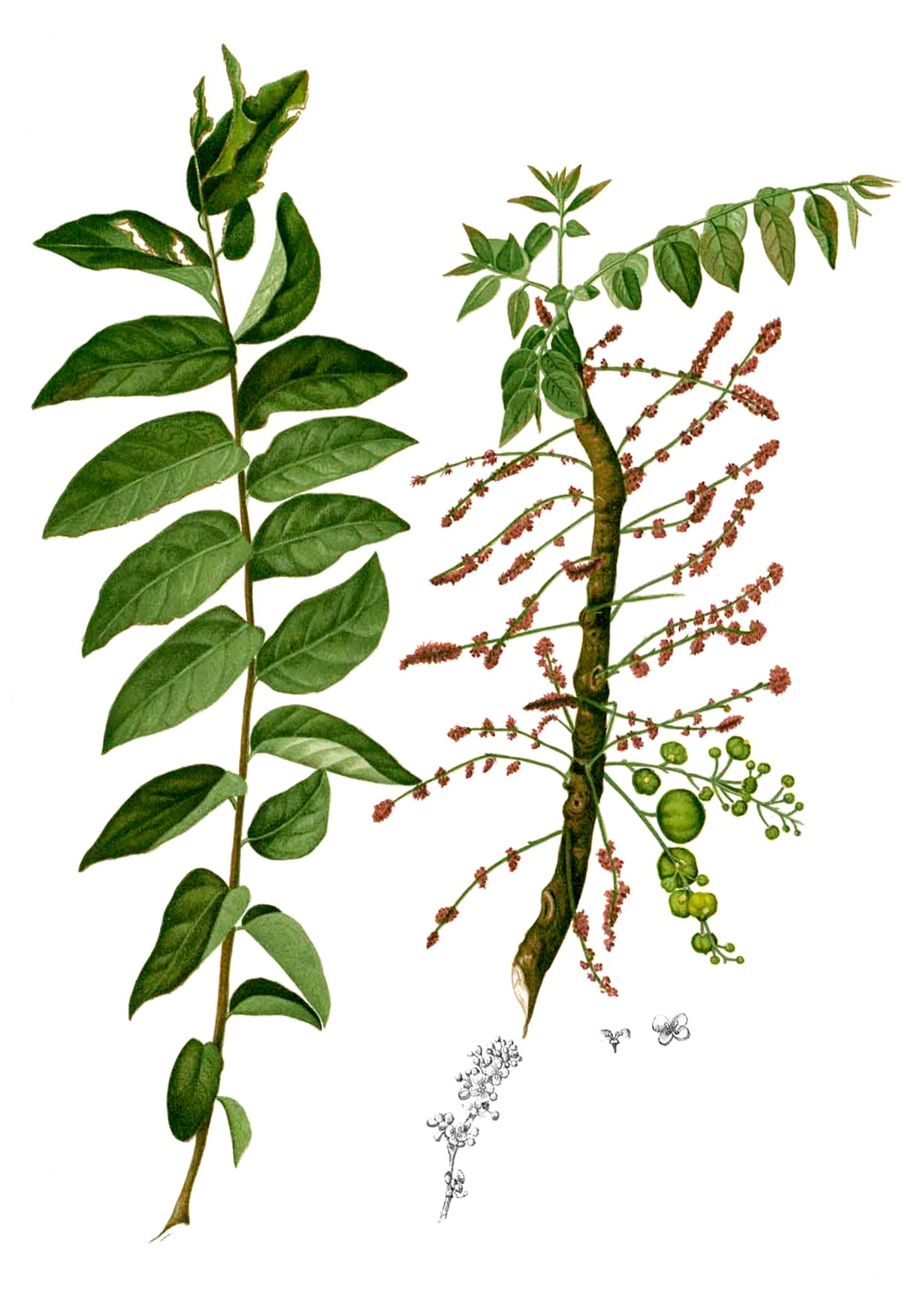 Plate from book